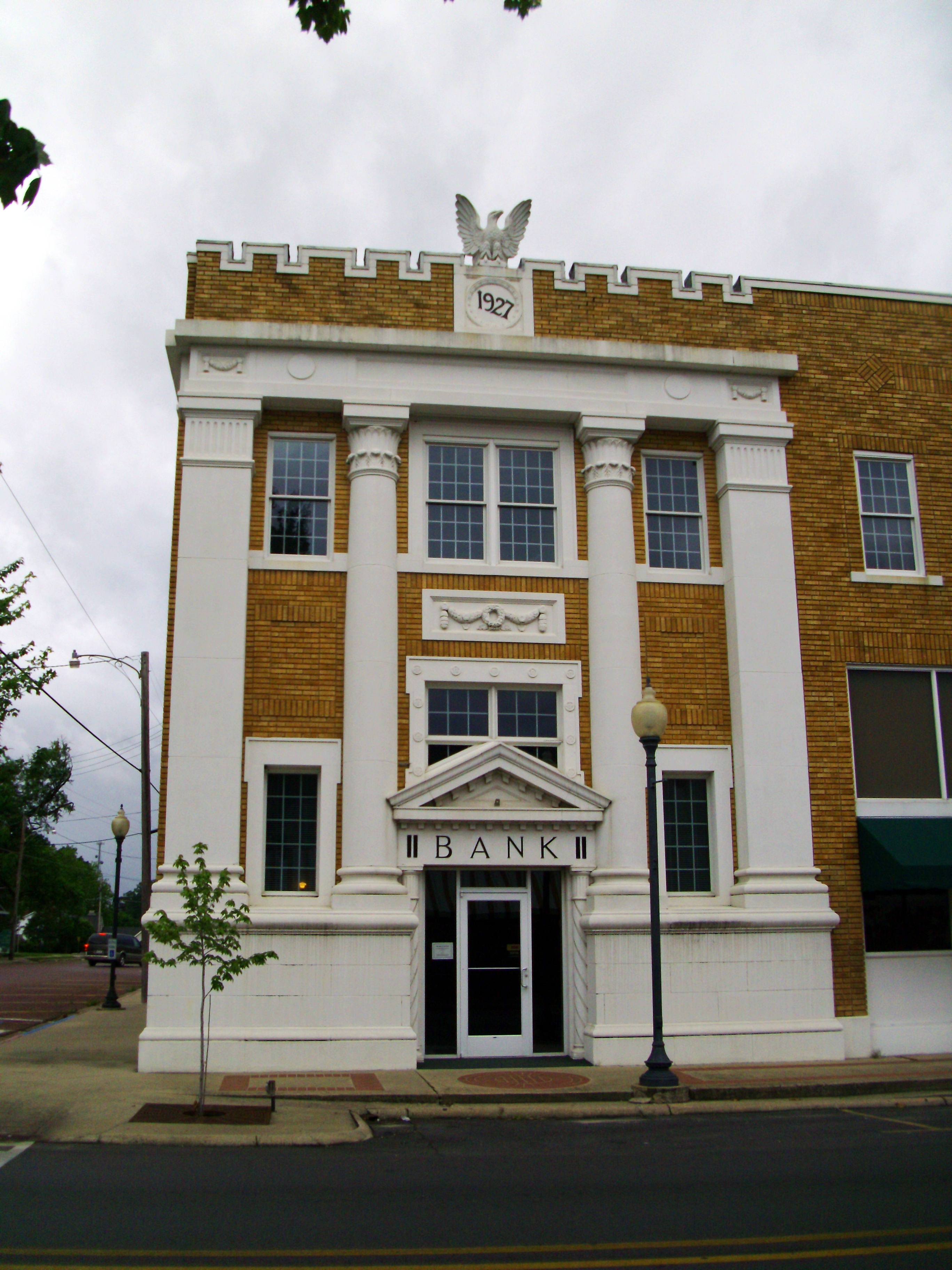 Downtown Warren, Arkansas